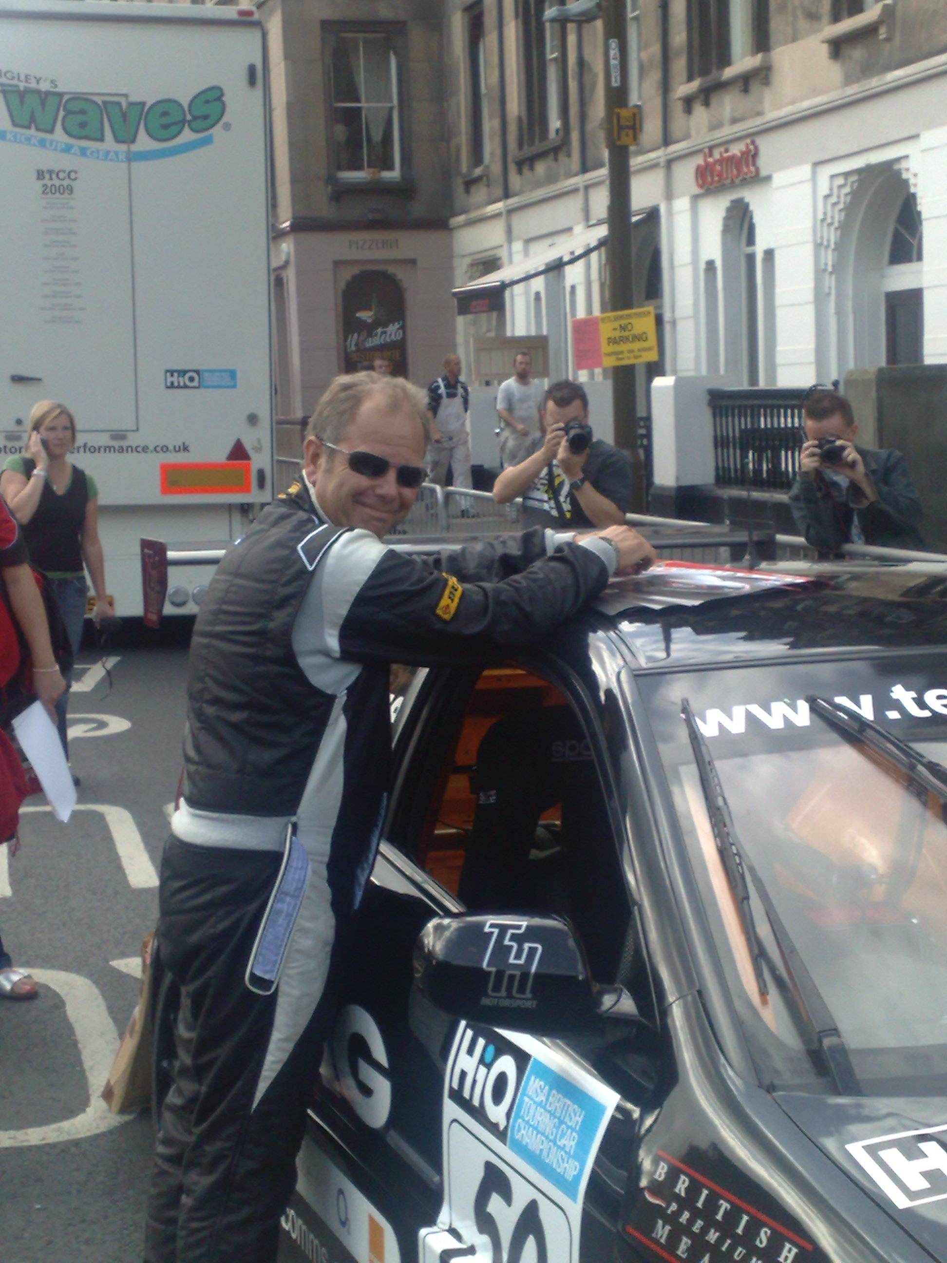 John George at the 2009 Dunlop British Touring Car Festival in Edinburgh.